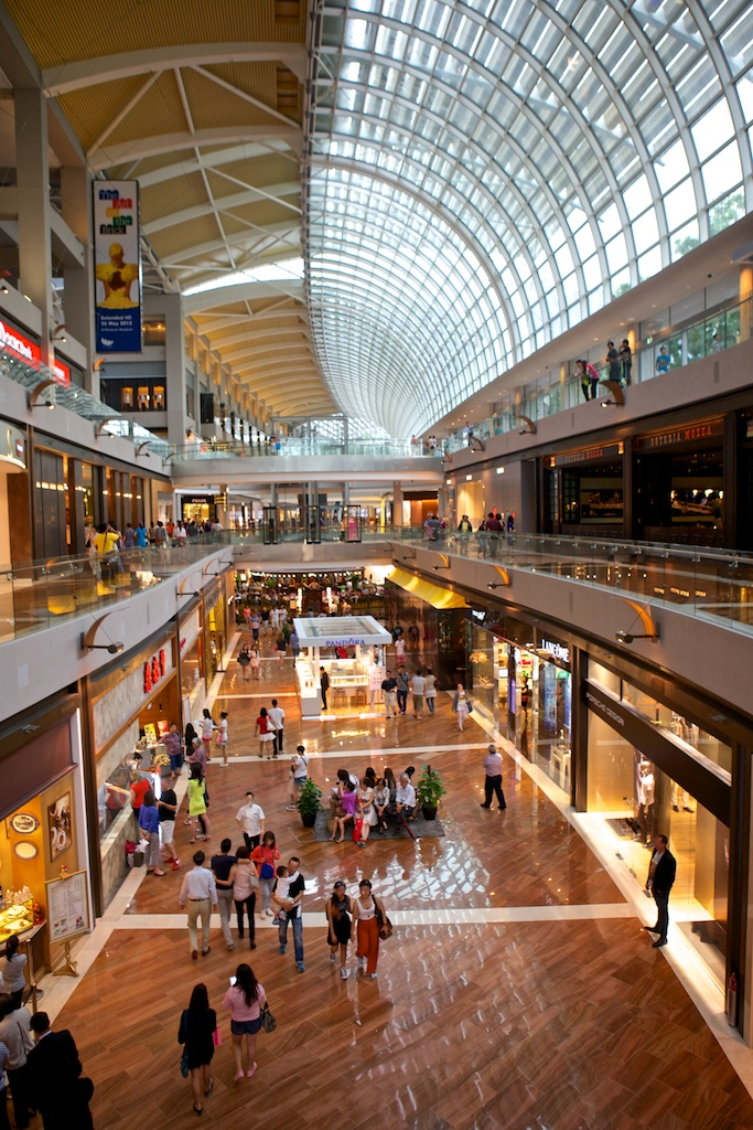 Sands Shopping Centre